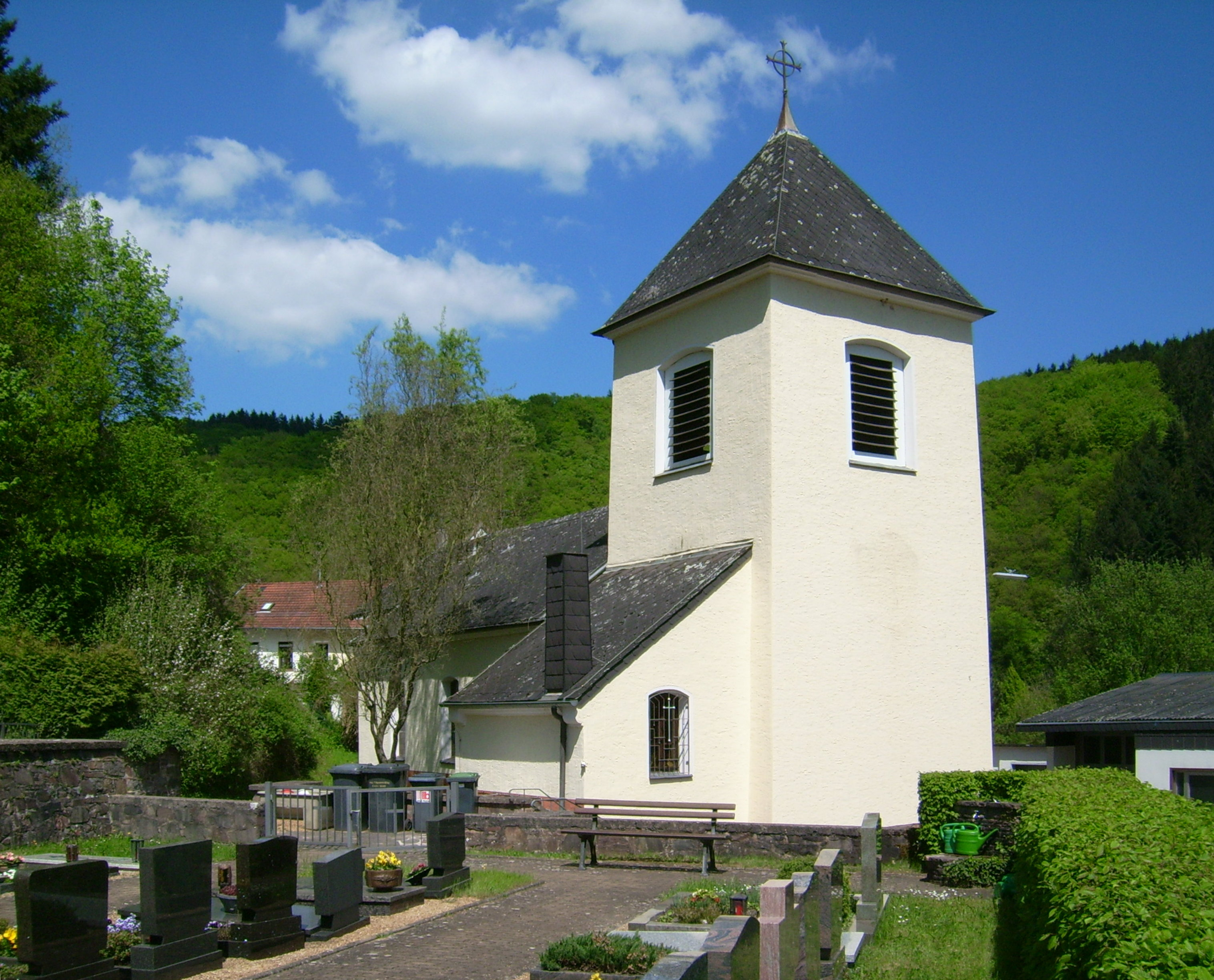 Chapel in Dreisbach